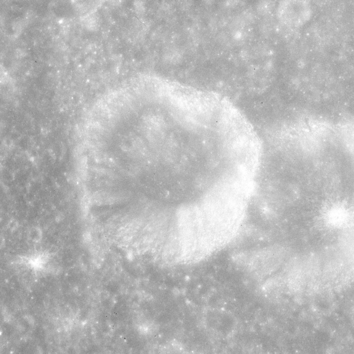 Daly crater, the moon. Rotated so that north is at top.